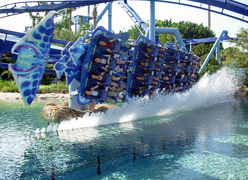 Roller Coaster, Manta at Sea World in Orlando, FL